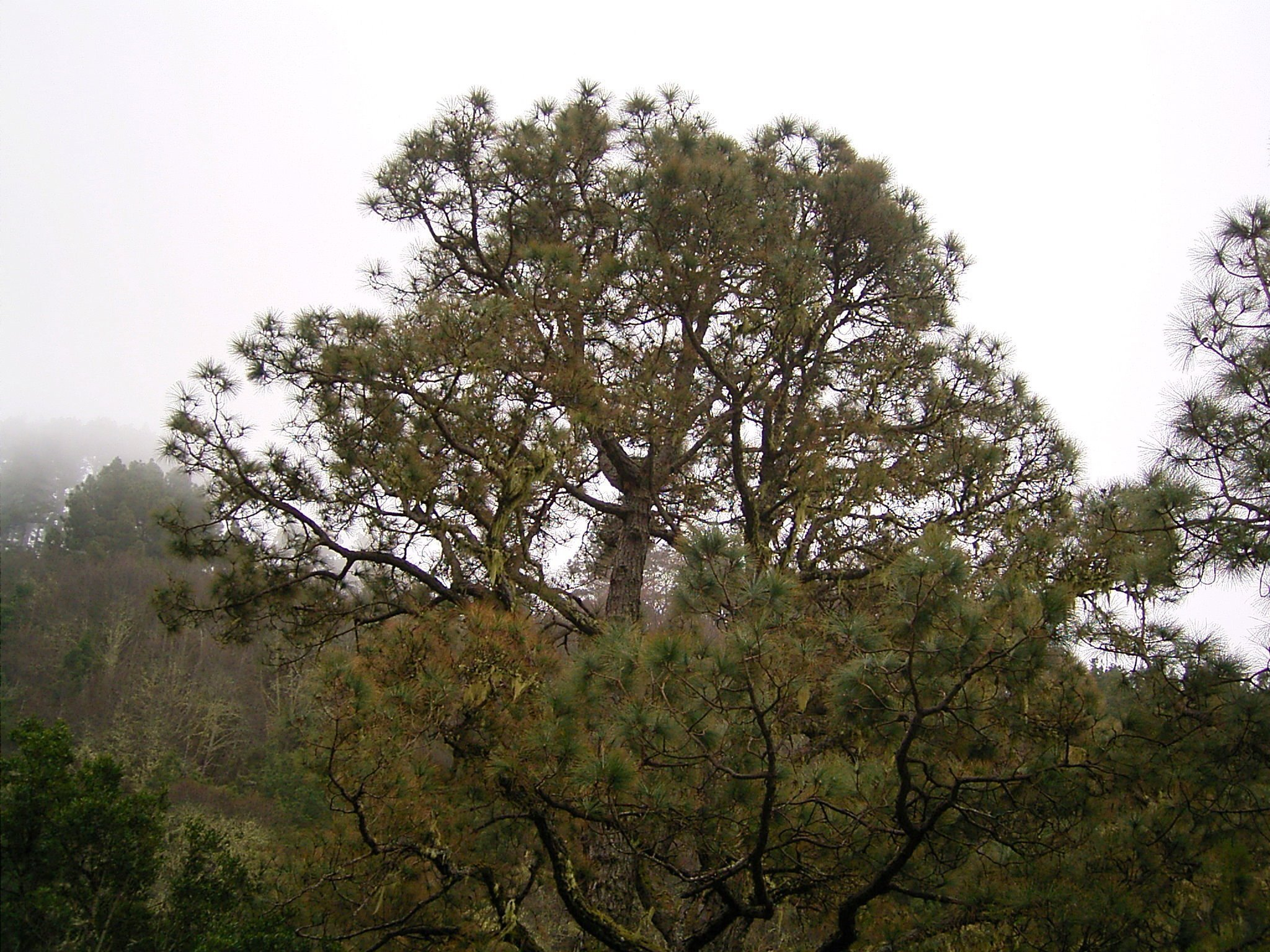 Pinus canariensis growing in Barlovento, La Palma, Canary Islands